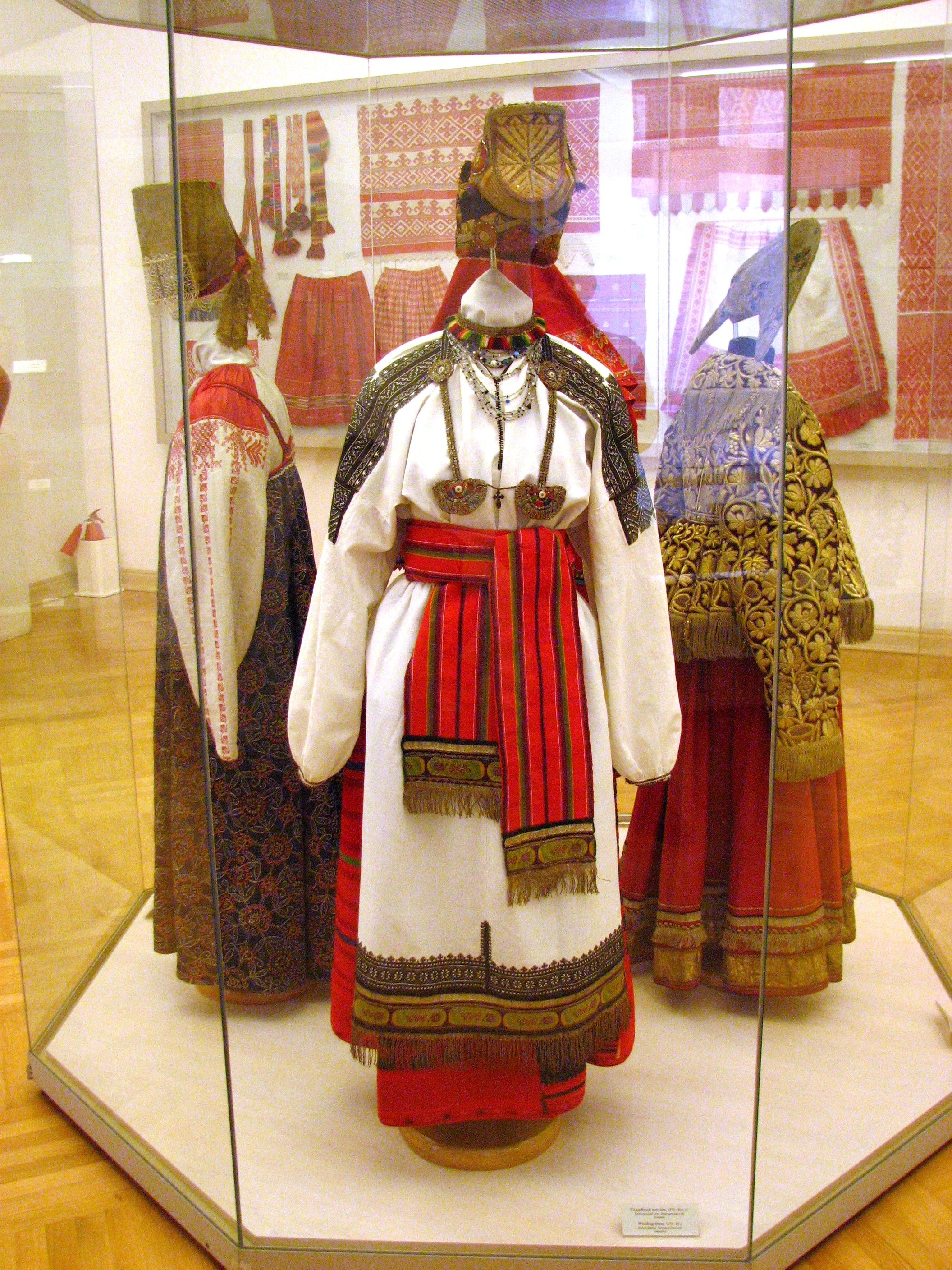 Russian Museum, a collection of folk art. Female wedding dress. Voronezh Governorate, Biryuchensky uezd. 1870s - 1880s.